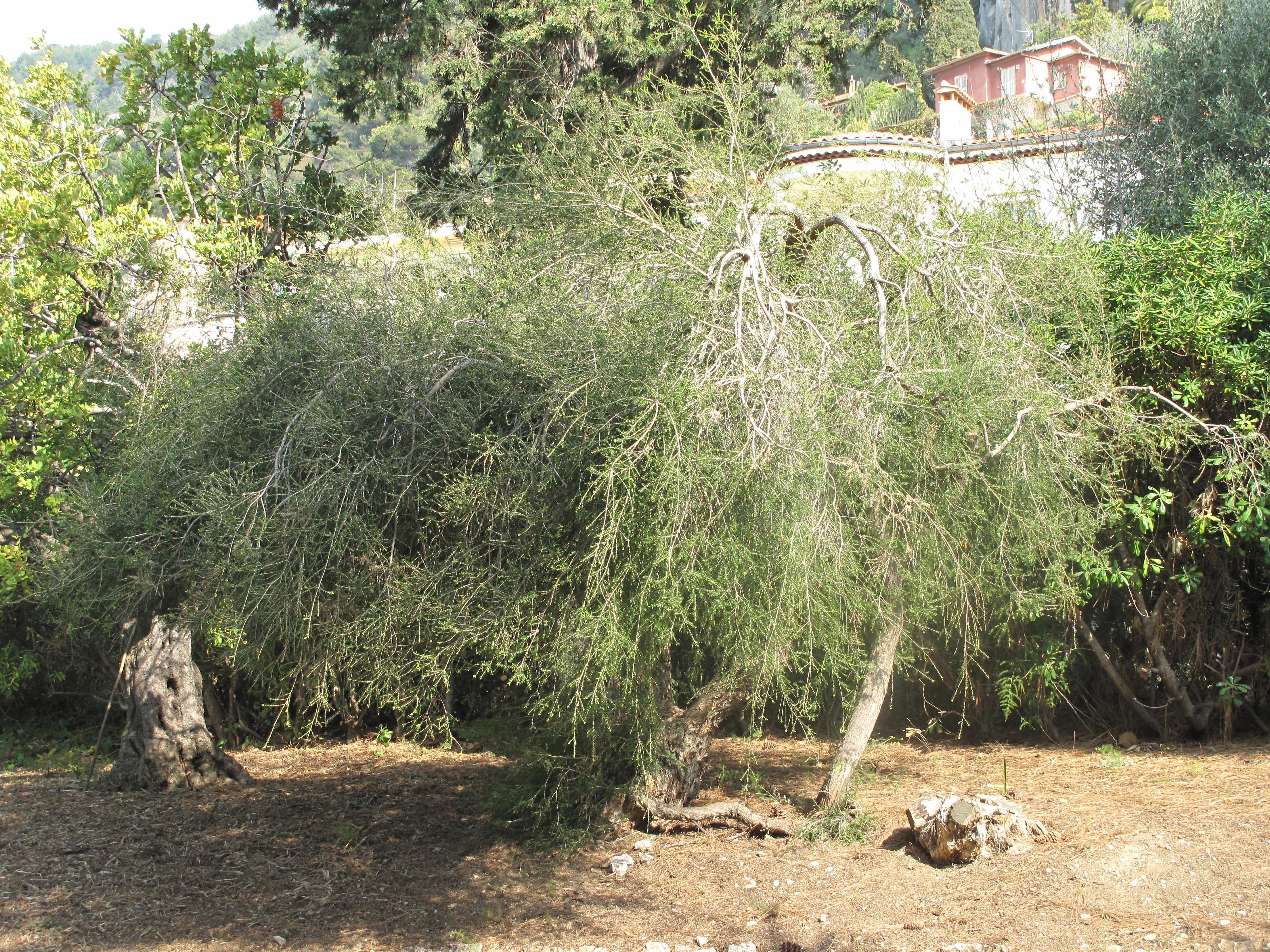 Melaleuca alternifolia in the garden of the villa Maria Serena in Menton (Alpes-Maritimes, France). Identified by botanic label.